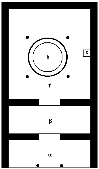 Mycenean Megaron